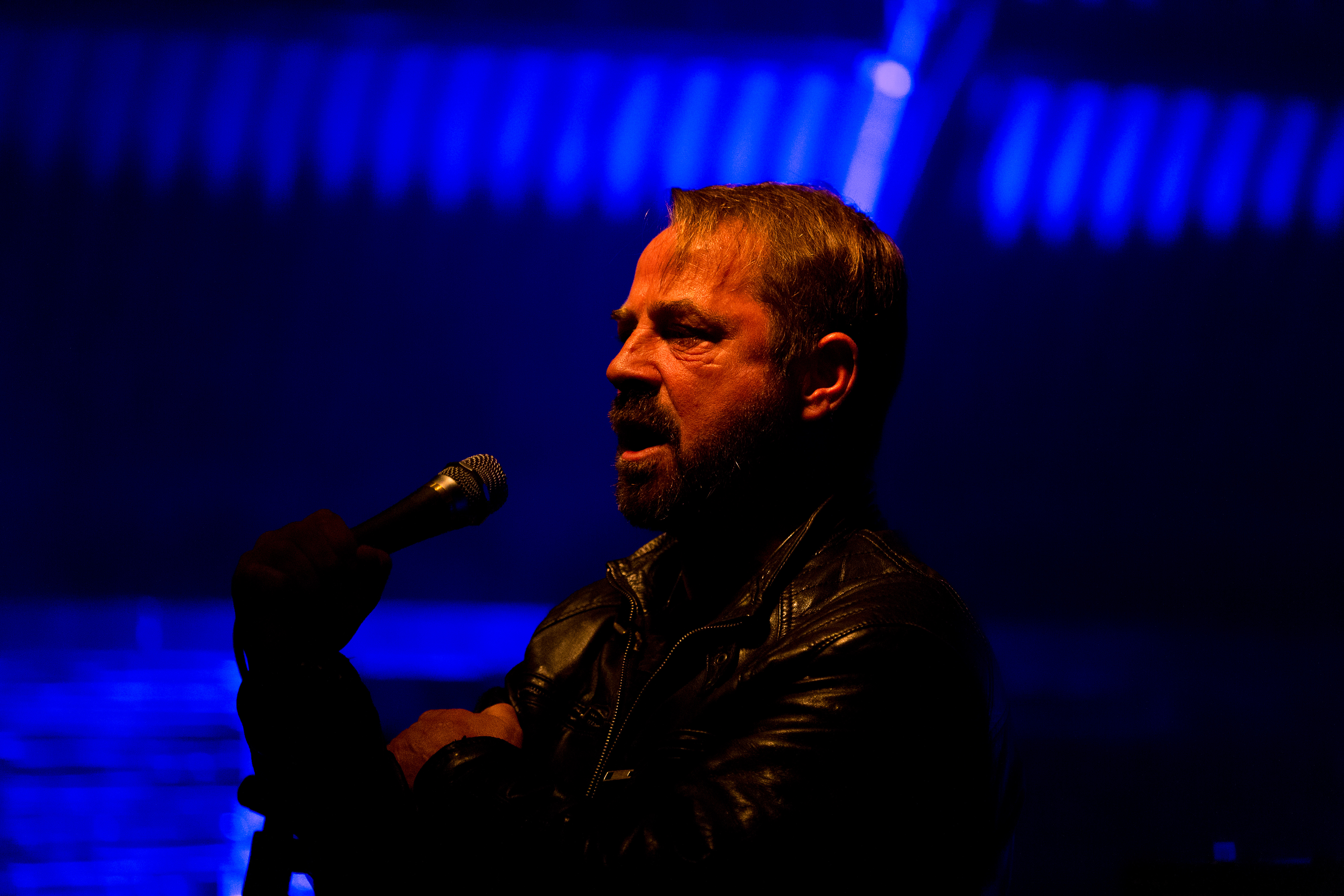 The Swedish dark ambient project Deutsch Nepal at the Nocturnal Culture Night 10 2015 in Deutzen/Germany.